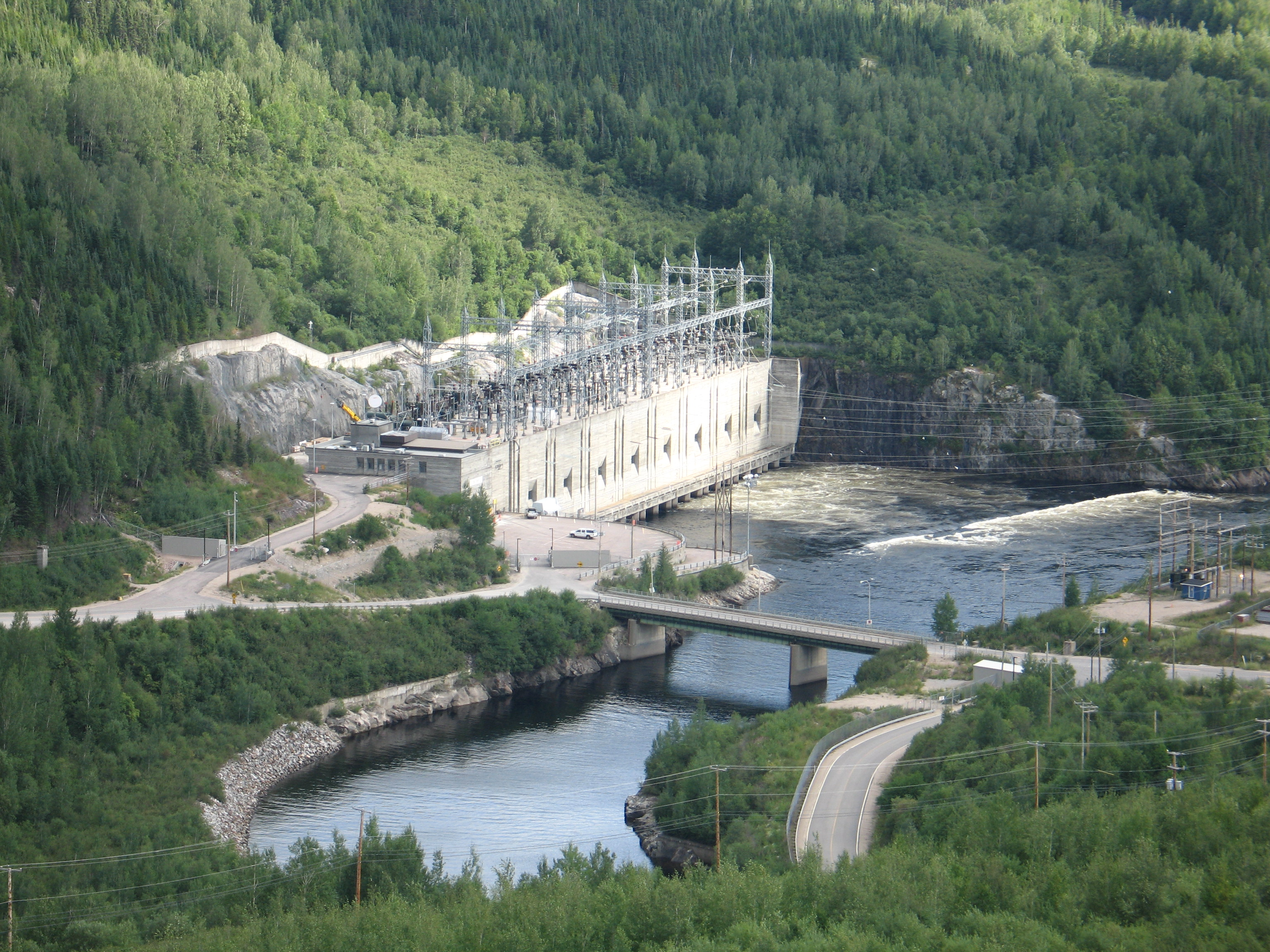 Hydro-Québec's Manic-cinq electric power plant, located 214 km north of Baie-Comeau, Quebec. This aerial view of the 1528 MW power plant has been taken from the top of the Daniel-Johnson Dam. On the photograph, 4 of the 8 turbine groups of the station are generating power.